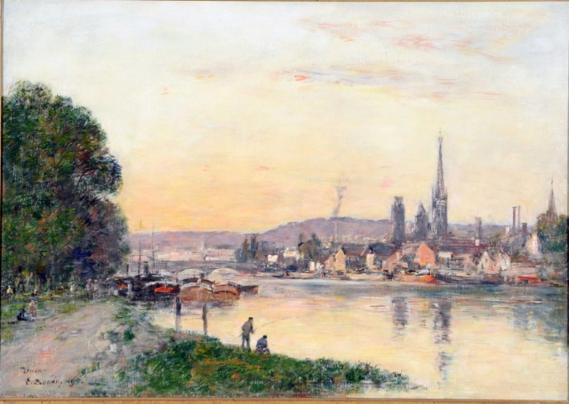 Sight of the French river la Seine, in Rouen, Seine-Maritime.